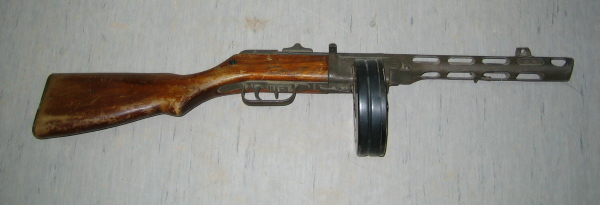 PPSh-41 submachine gun used by insurgents in the Battle of Fallujah during Operation Iraqi Freedom.